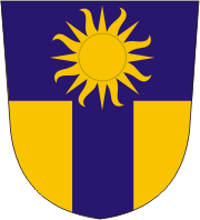 Coat of arms of Narva-Jõesuu linn, Estonia